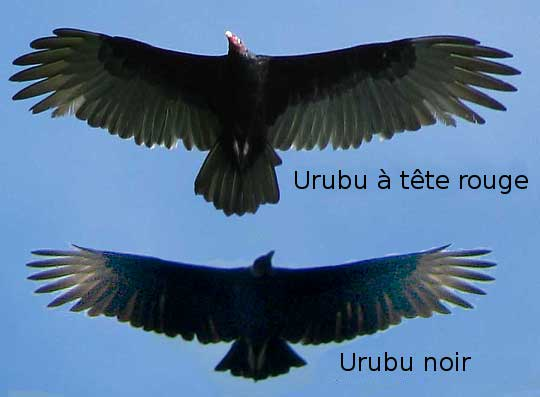 Silhouettes of a Turkey Vulture and an American Black Vulture